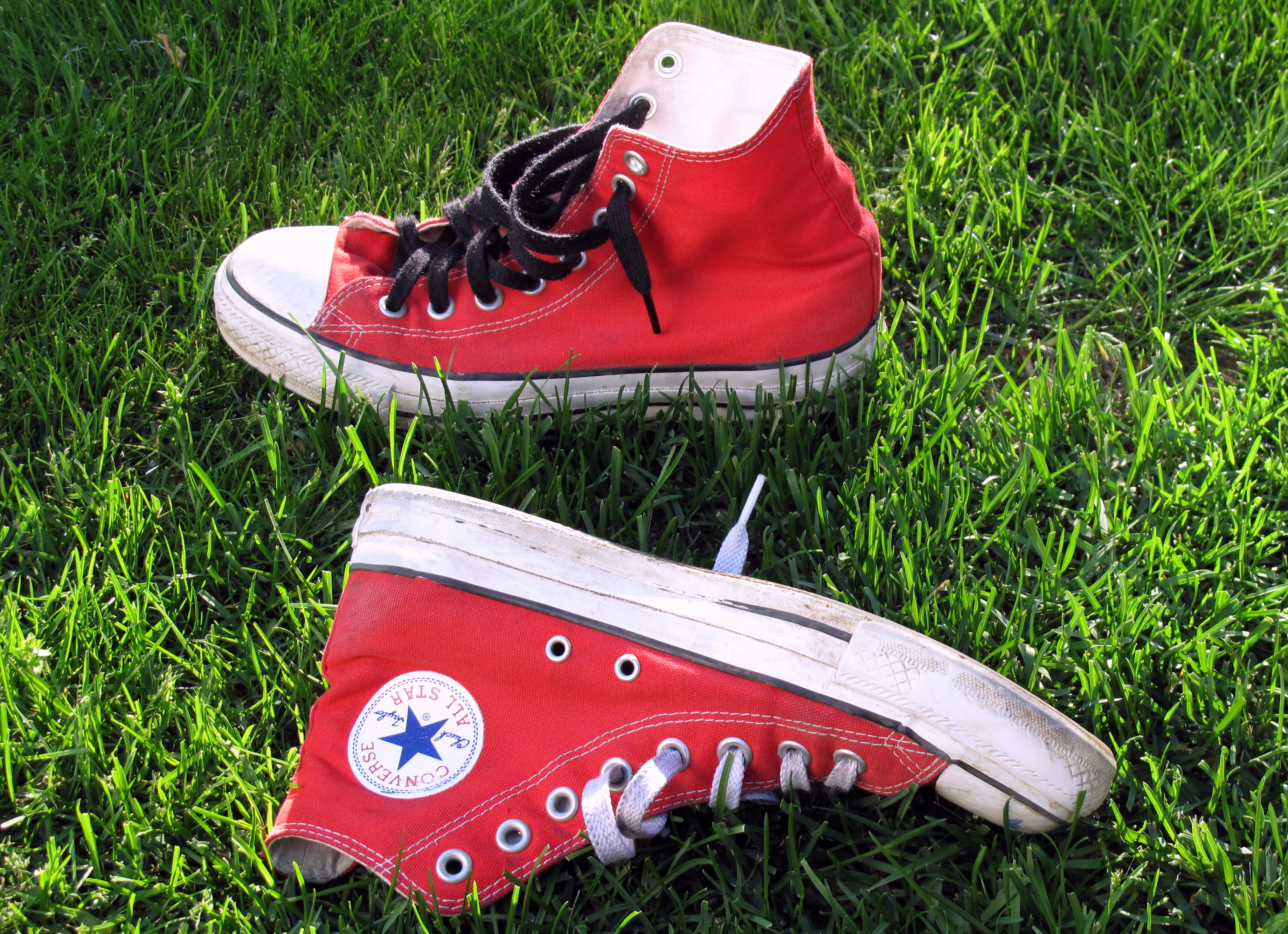 Converse